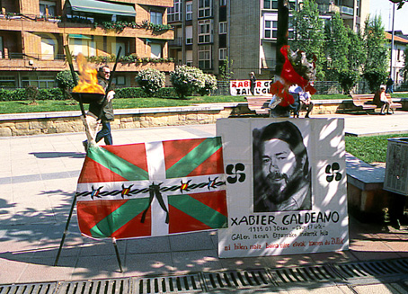 Hommage to Xabier Galdeano, victom of GAL.